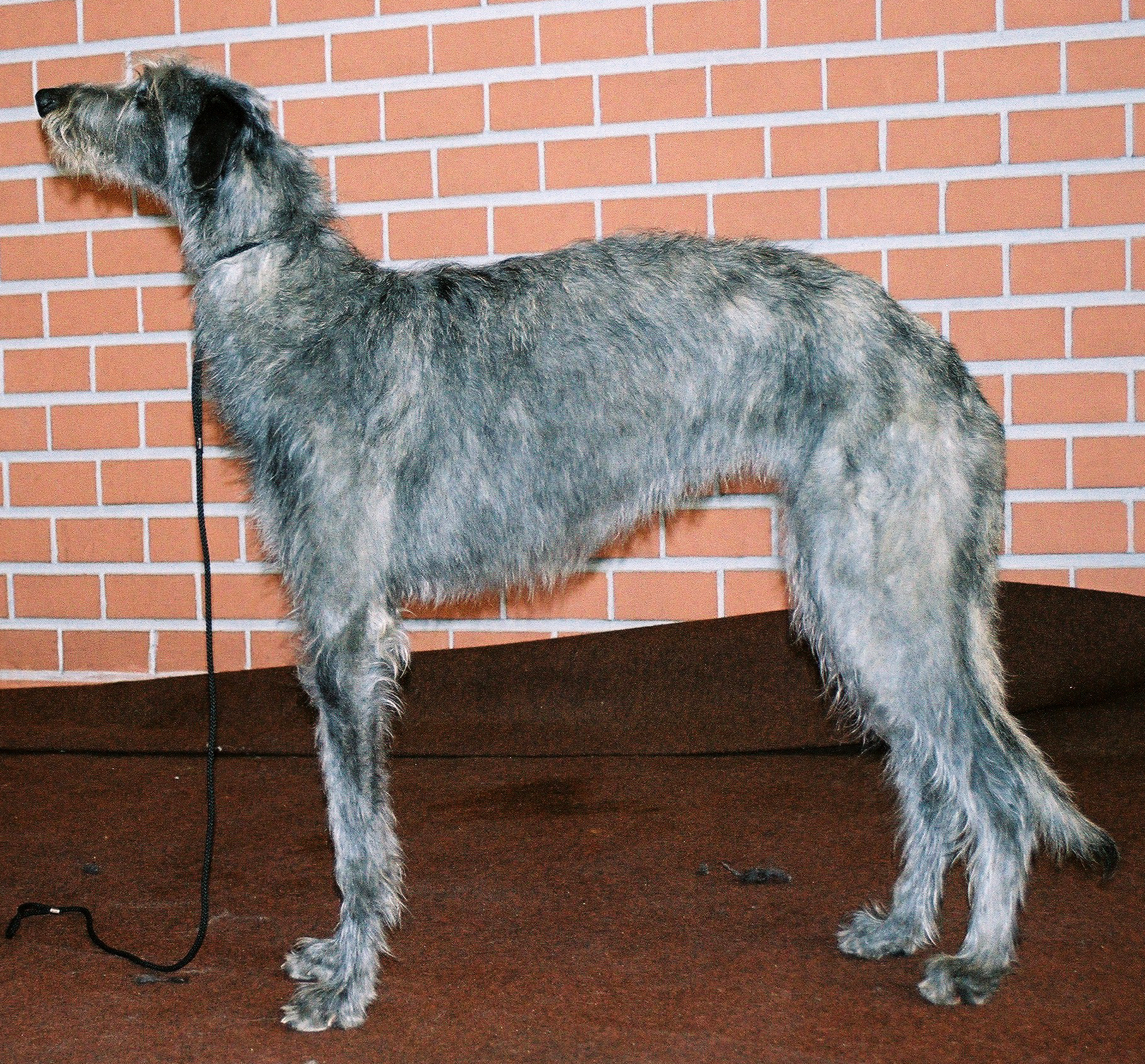 Female Deerhound named CINDIRELLA Festina, from kennel "Festina", during International Dog's Show in Katowice, Poland Autor: Pleple2000 05:32, 5 April 2006 (UTC)